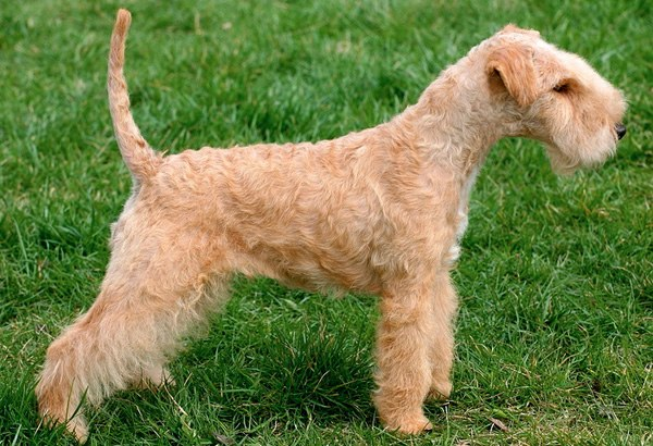 A Lakeland Terrier, the native dog breed of the Lake District.